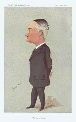 Caricature of A.H.Savage Landor Vanity Fair 26 Nov 1913. Caption reads "A Cutter of Continents"